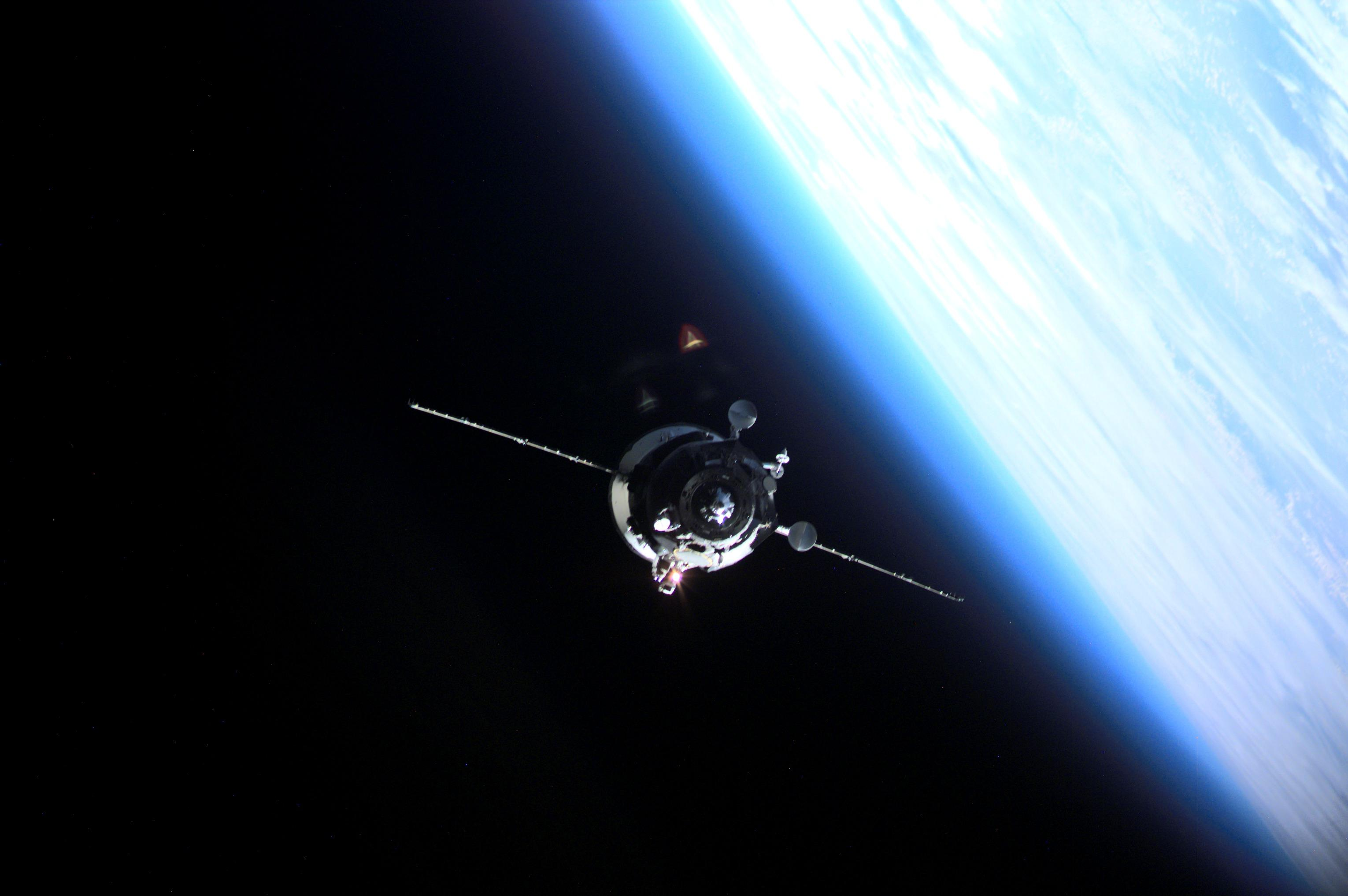 Progress M1-7 seen from the International Space Station during docking.